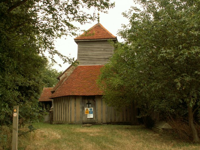 St. Mary's church, Mundon, Essex. This church dates back to Norman times and has an unusual half octagonal timber tower and belfry added by the Tudors.